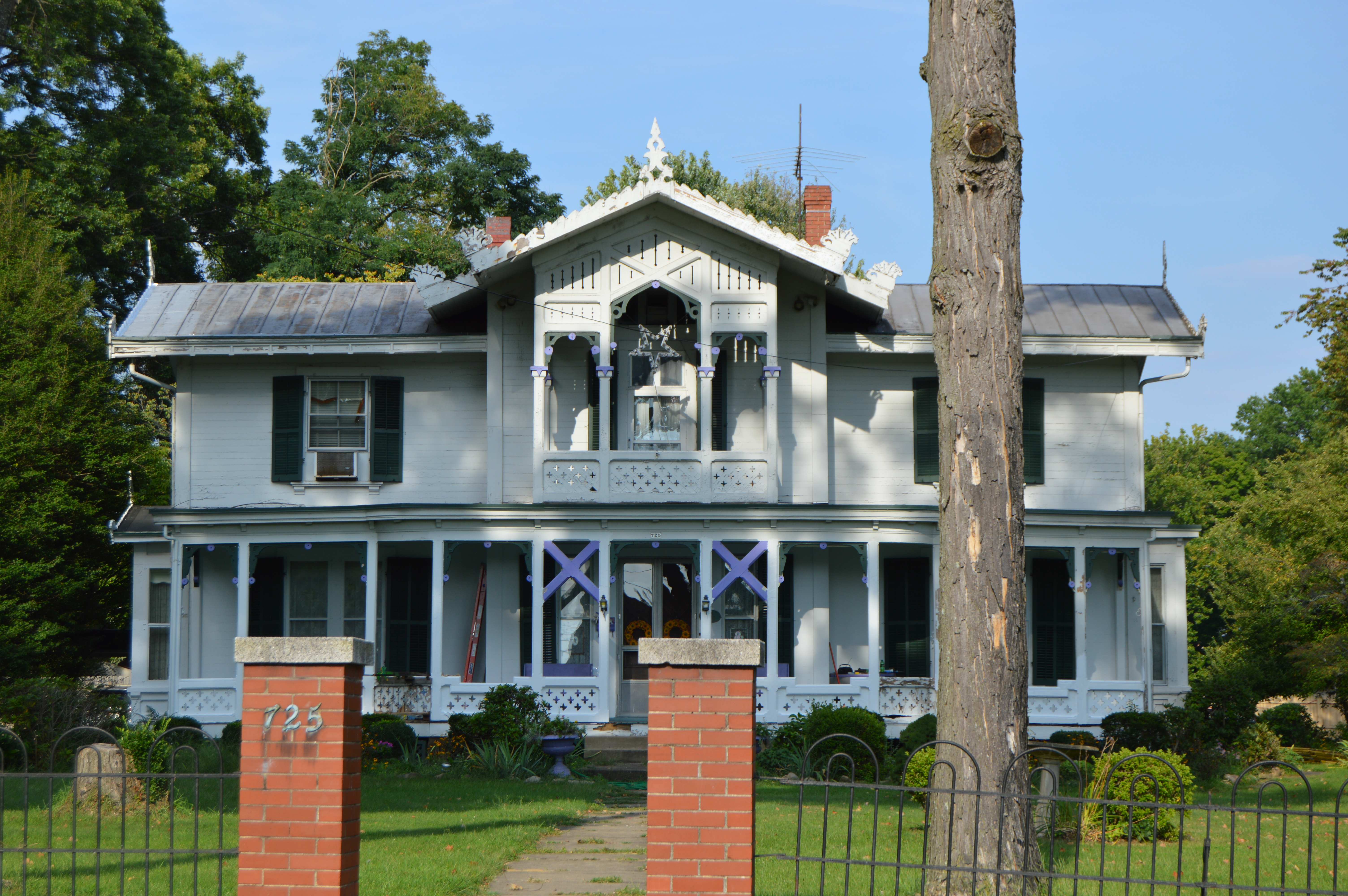 Front of the Parsons-Abbott-Mosser House, located at 725 W. Ninth Street in Huntington, West Virginia, United States. Built in 1870, it is part of the Ninth Street West Historic District, a historic district that is listed on the National Register of Historic Places.